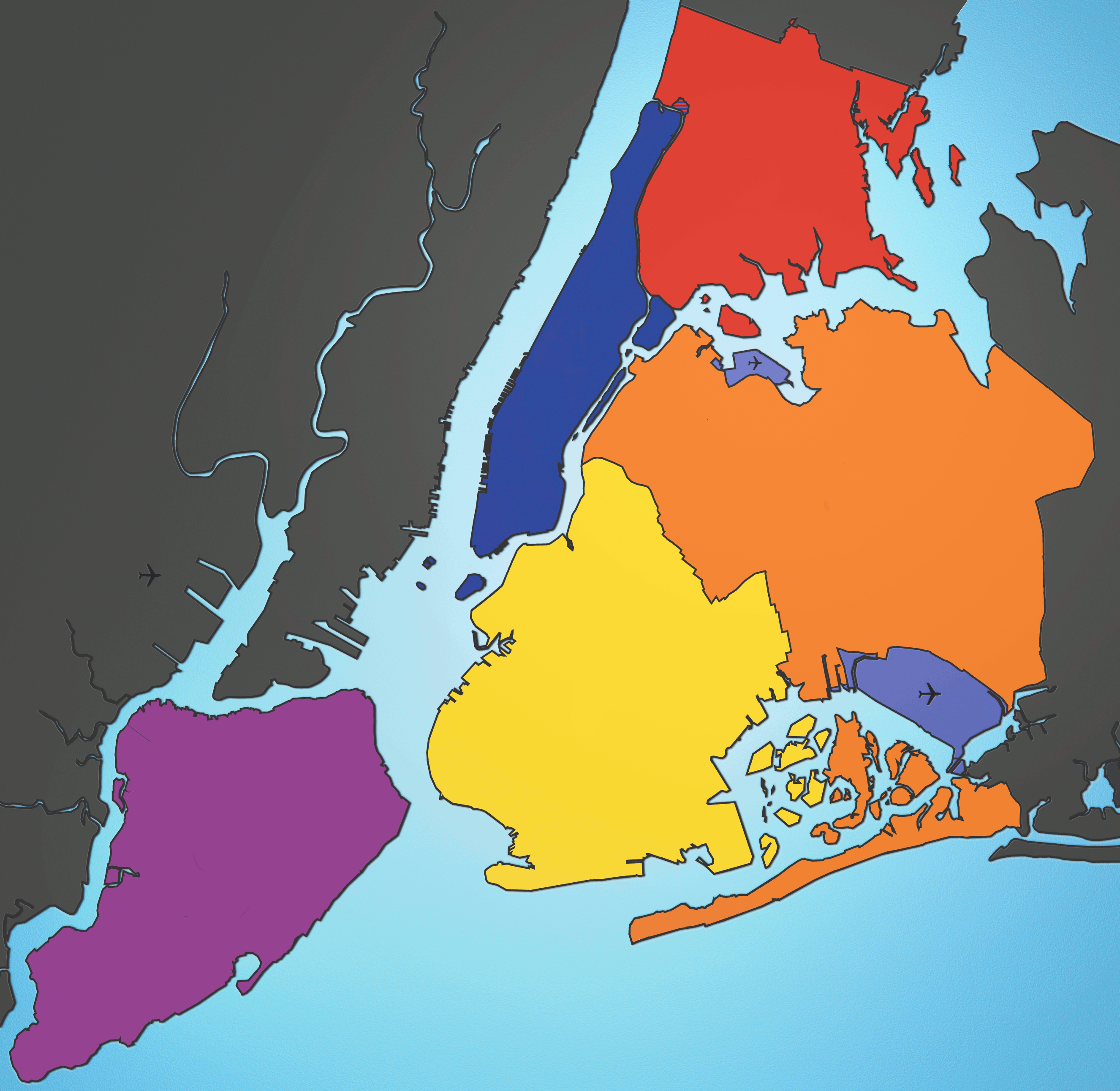 A blank colored map of the five New York City Boroghs